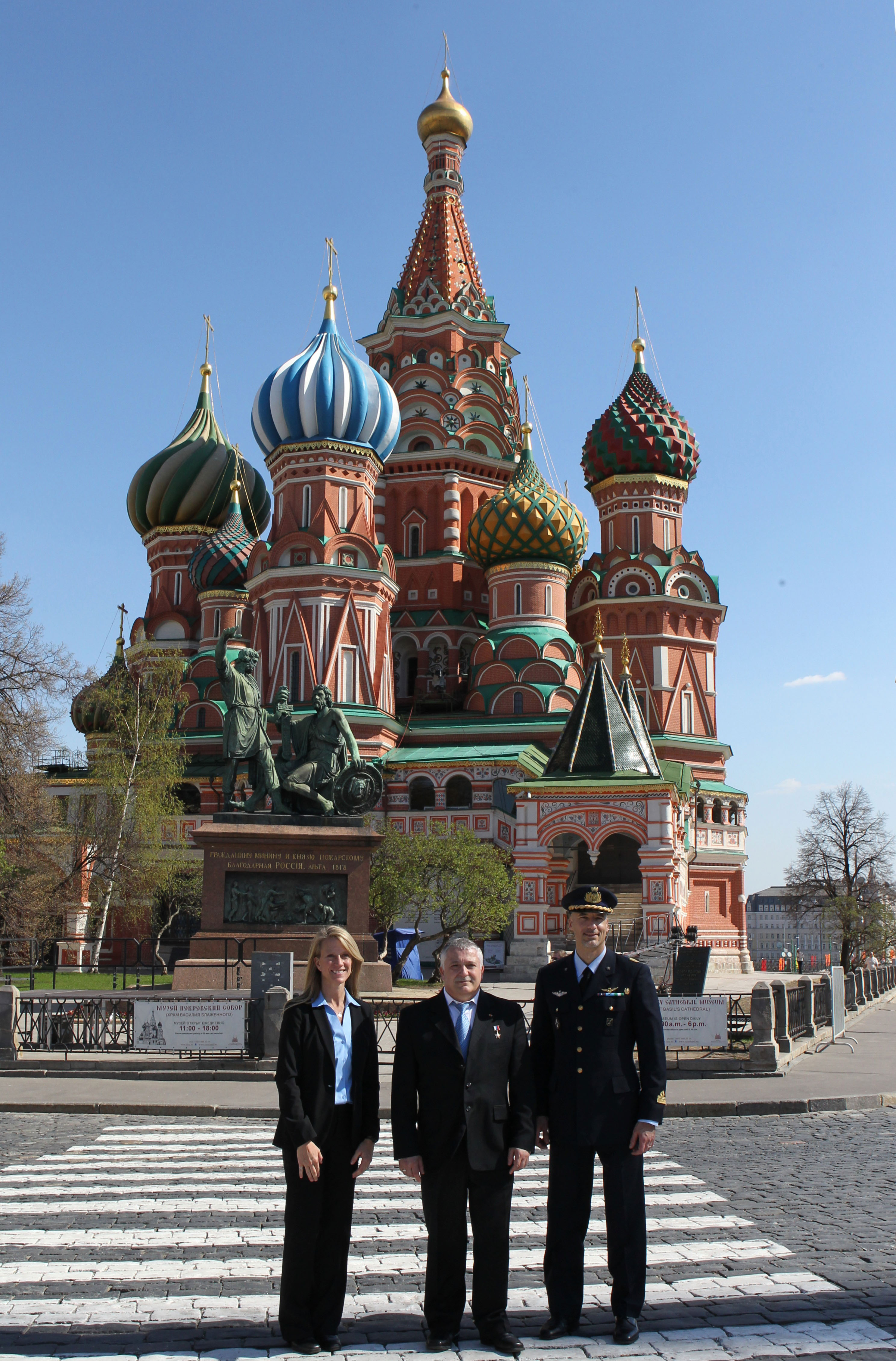 With famed St. Basil's Cathedral serving as a backdrop, Expedition 36/37 Flight Engineer Karen Nyberg of NASA (left), Soyuz Commander Fyodor Yurchikhin (center) and Flight Engineer Luca Parmitano of the European Space Agency pose for pictures May 8 during a ceremonial tour of Red Square in Moscow. Nyberg, Yurchikhin and Parmitano are preparing for their launch May 29, Kazakh time, in their Soyuz TMA-09M spacecraft from the Baikonur Cosmodrome in Kazakhstan for a six-month mission on the International Space Station.